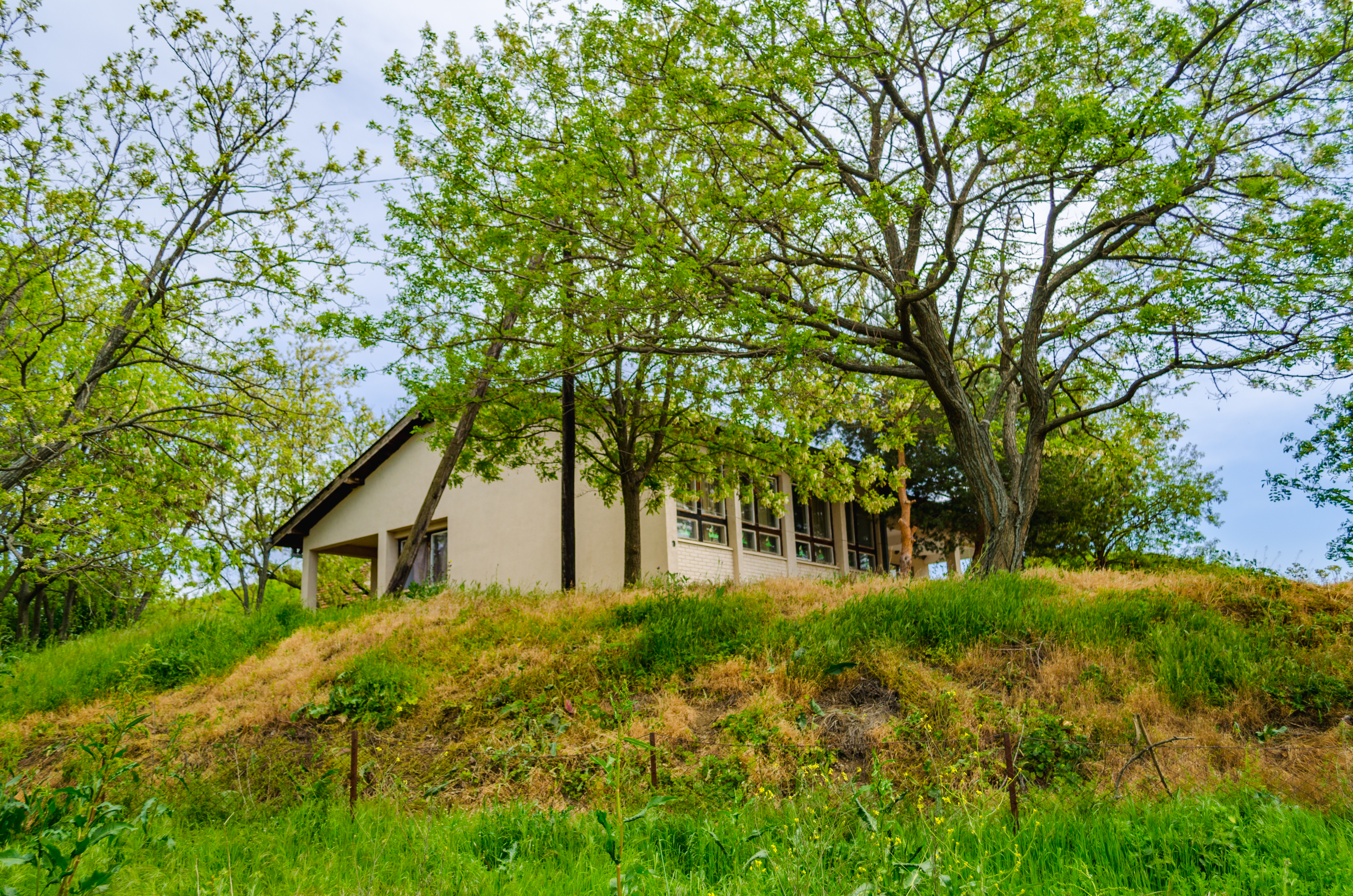 Primary school in the village